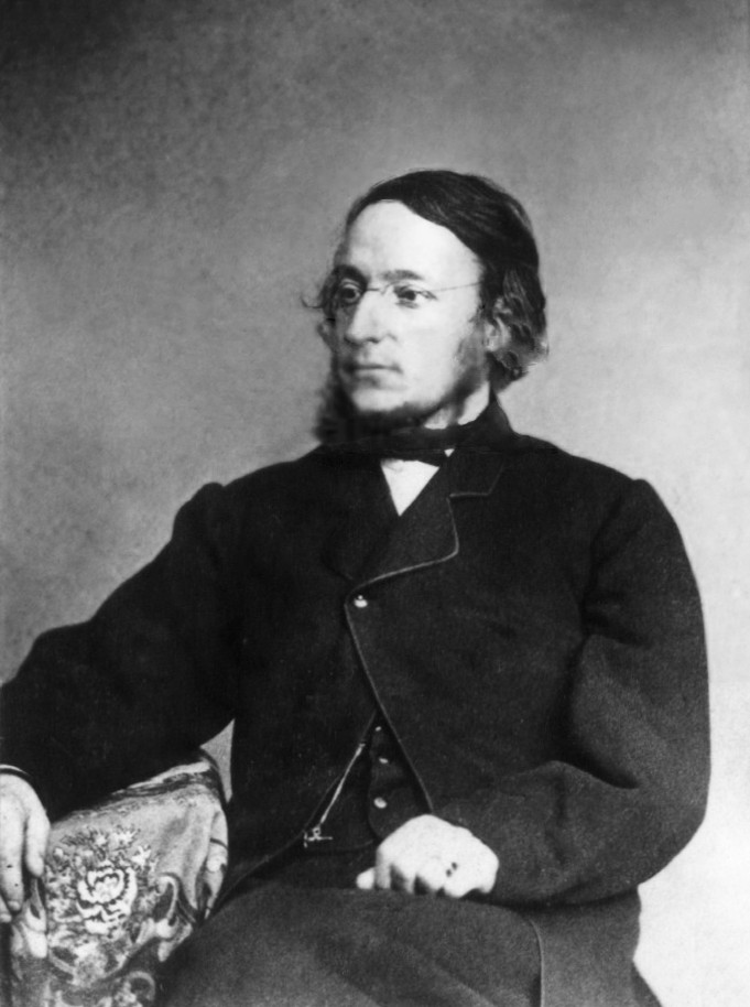 Photograph of Vincenzo Botta, Italian (emigre, 1853) professor of Philosophy, Italian language and literature at the University of the City of New York from 1864 until his death in 1894.